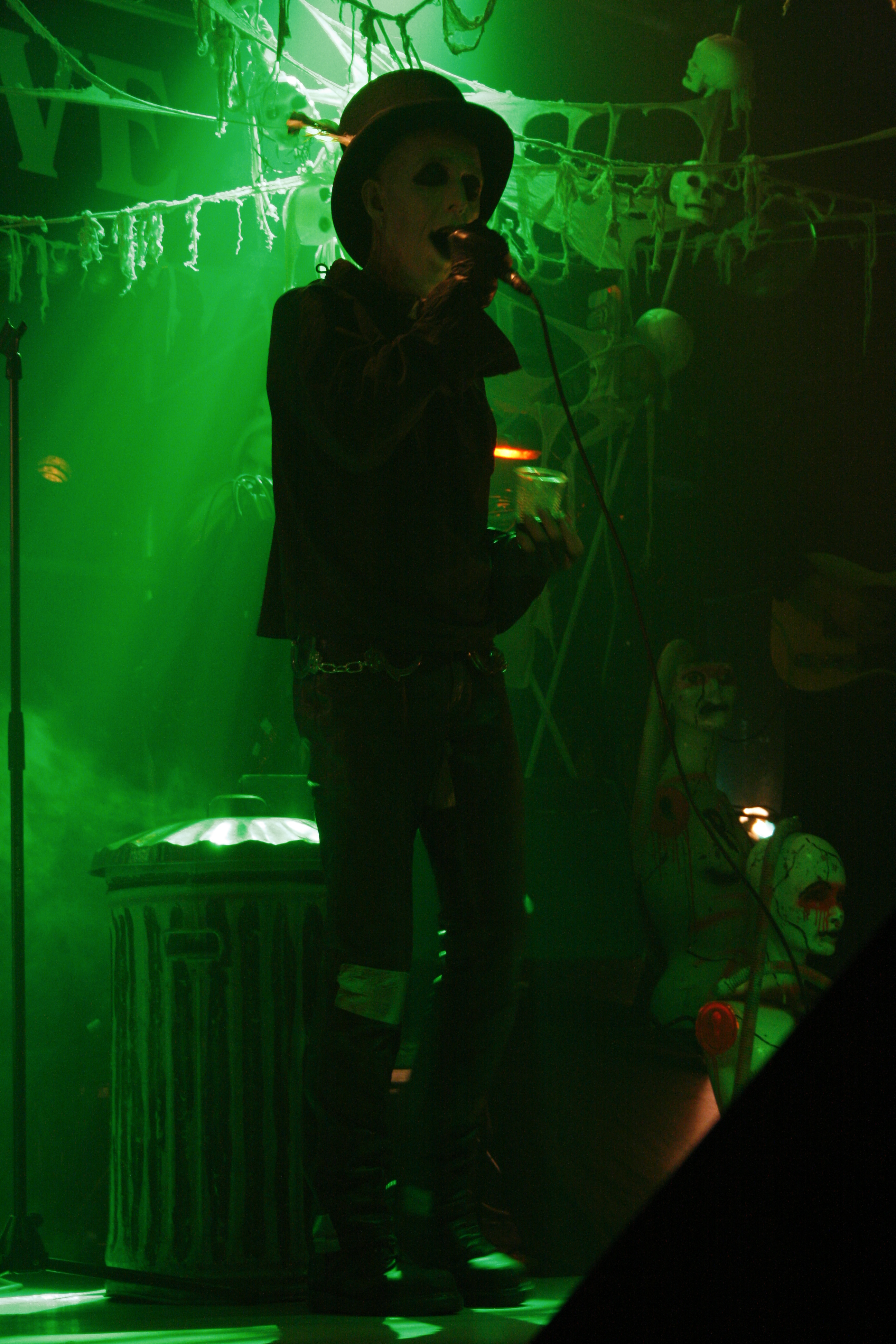 Alien Sex Fiend live in Paris at "la Loco"